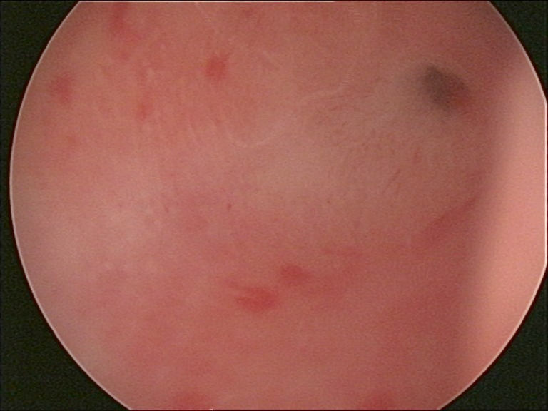 left tubal ostium